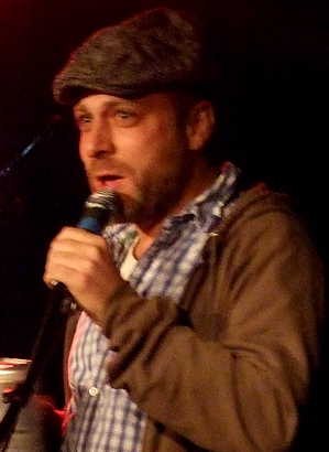 H. Jon Benjamin @ Hanukkah Night 1, Maxwell's - Dec 4, 2007.